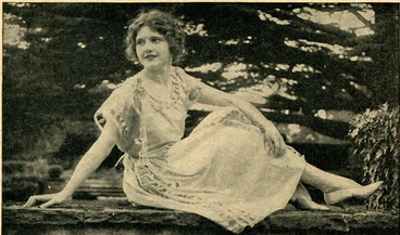 Constance Binney, in "A Bill of Divorcement", from a 1923 publication.